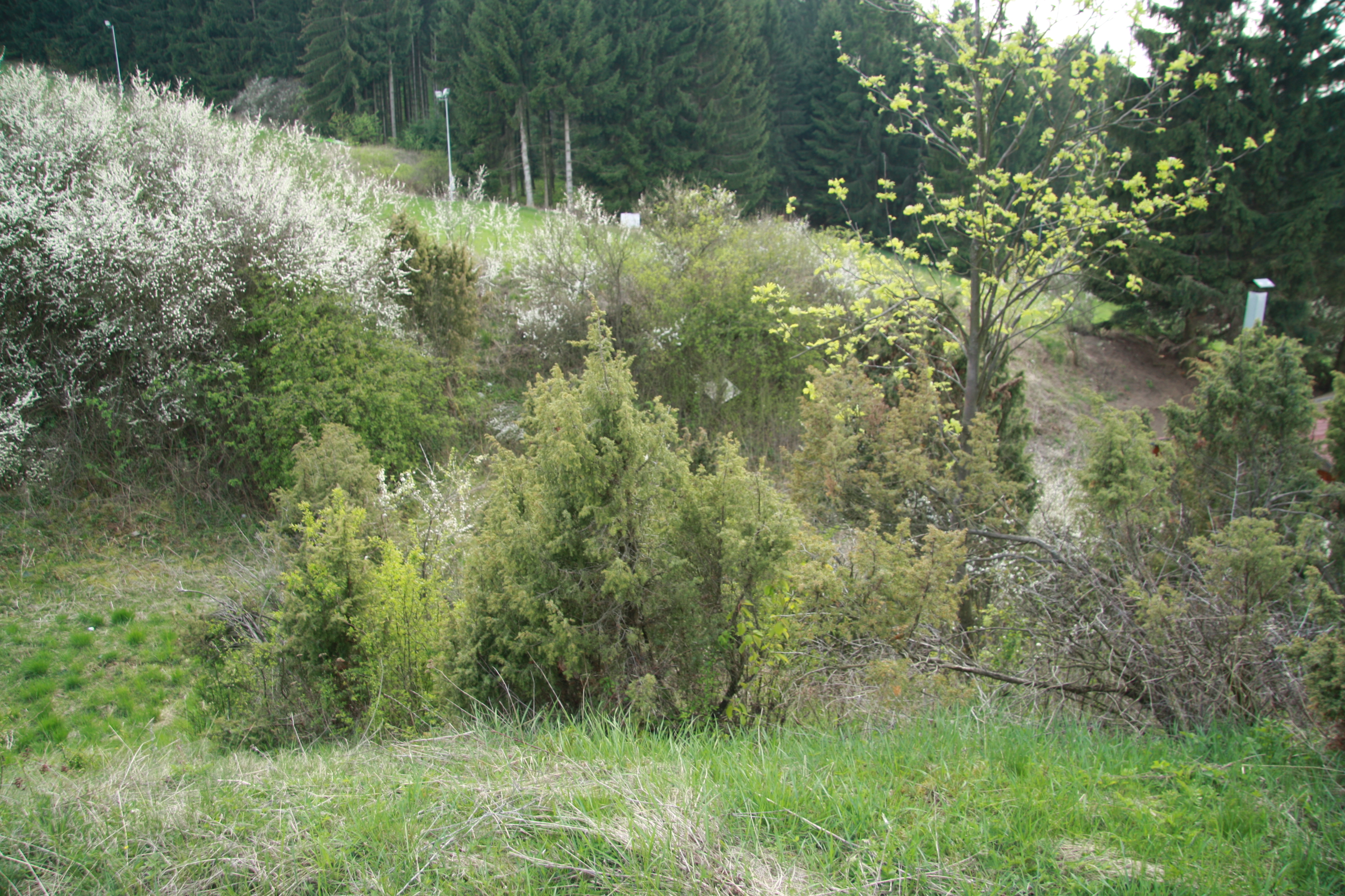 Juniperus and other trees at Jalovec in Číchov, Třebíč District.